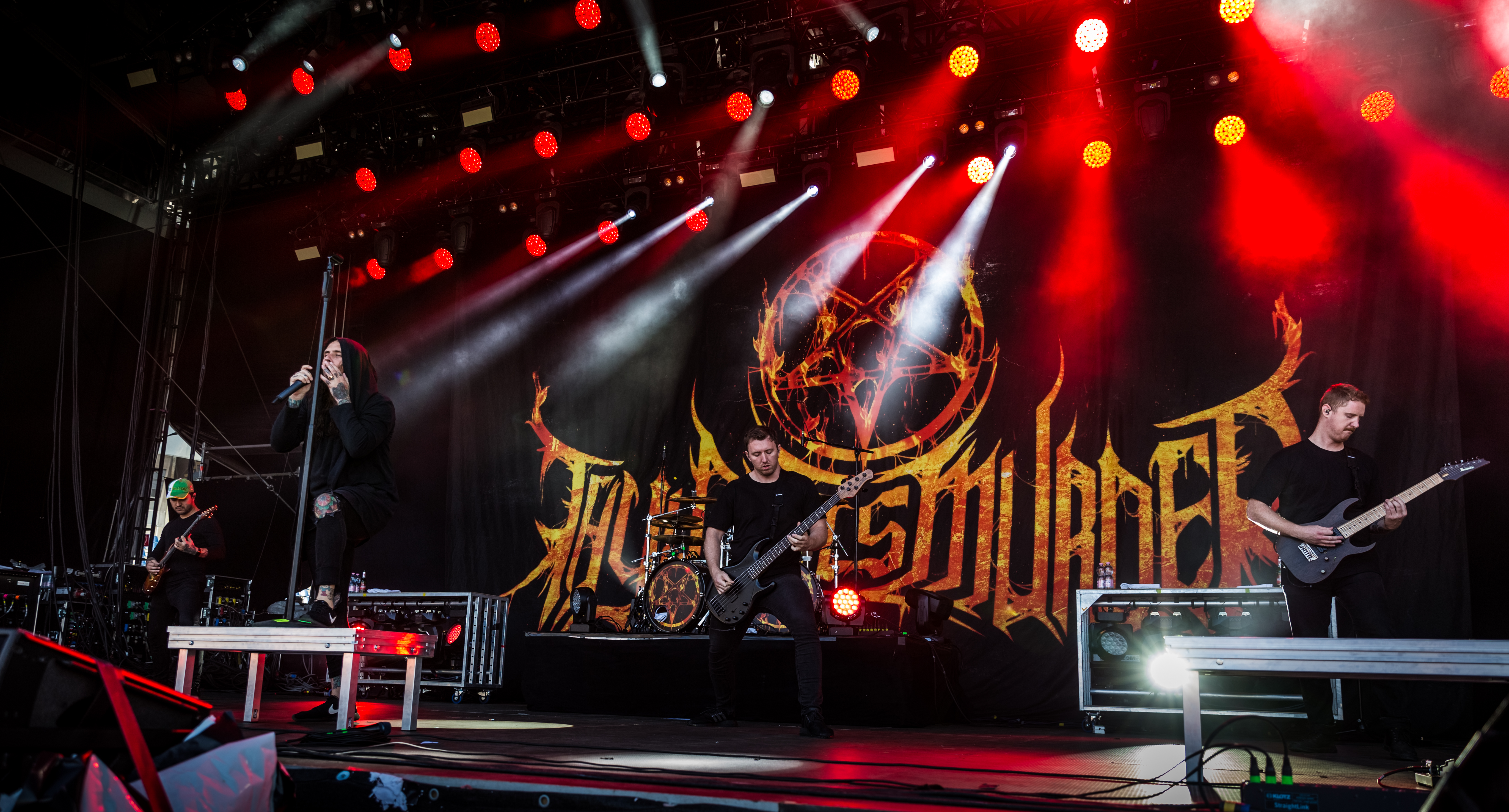 Thy Art Is Murder - Rock am Ring 2018